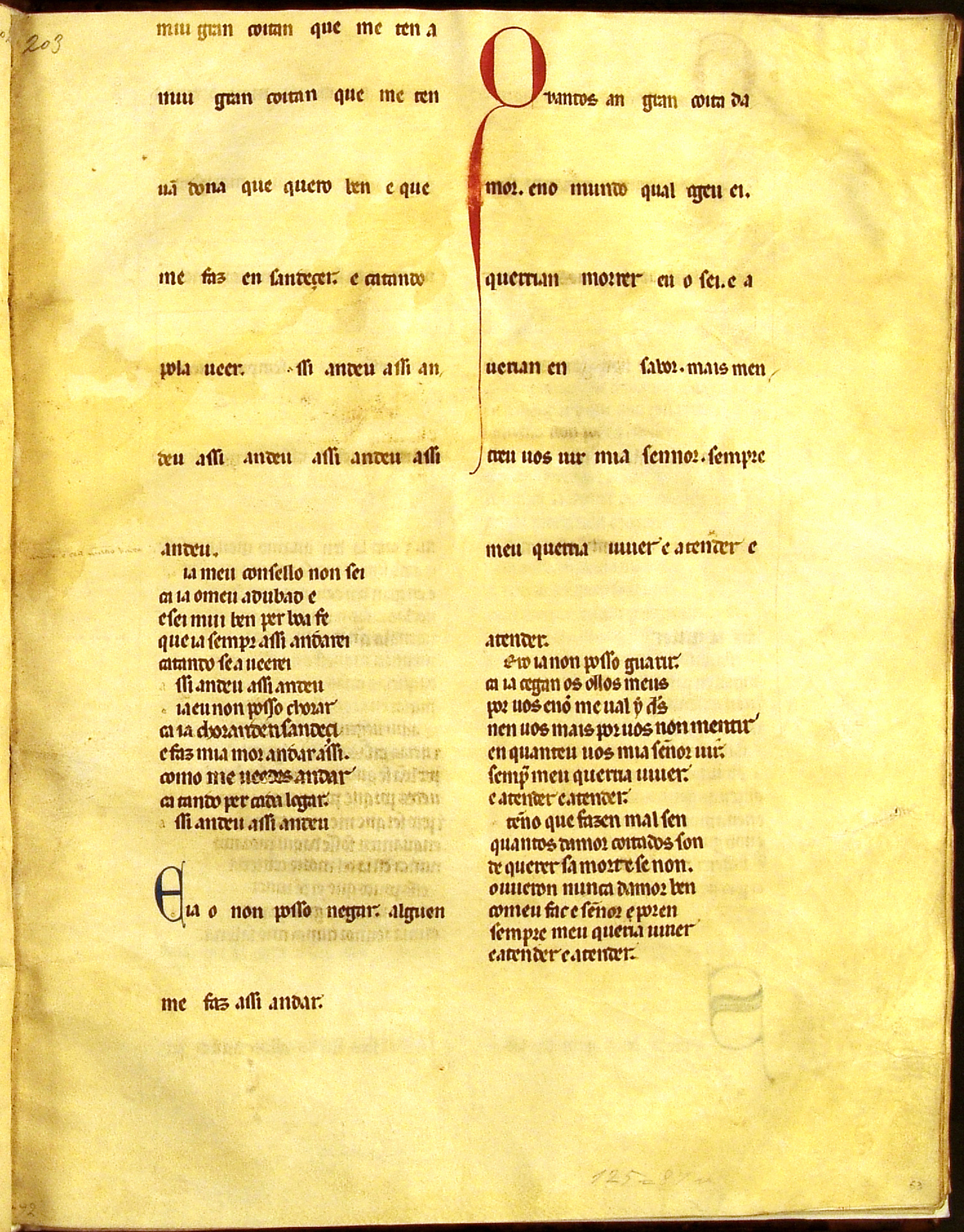 Cancioneiro da Ajuda manuscripts